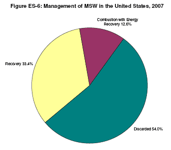 2007 EPA figures - Municipal Solid Waste